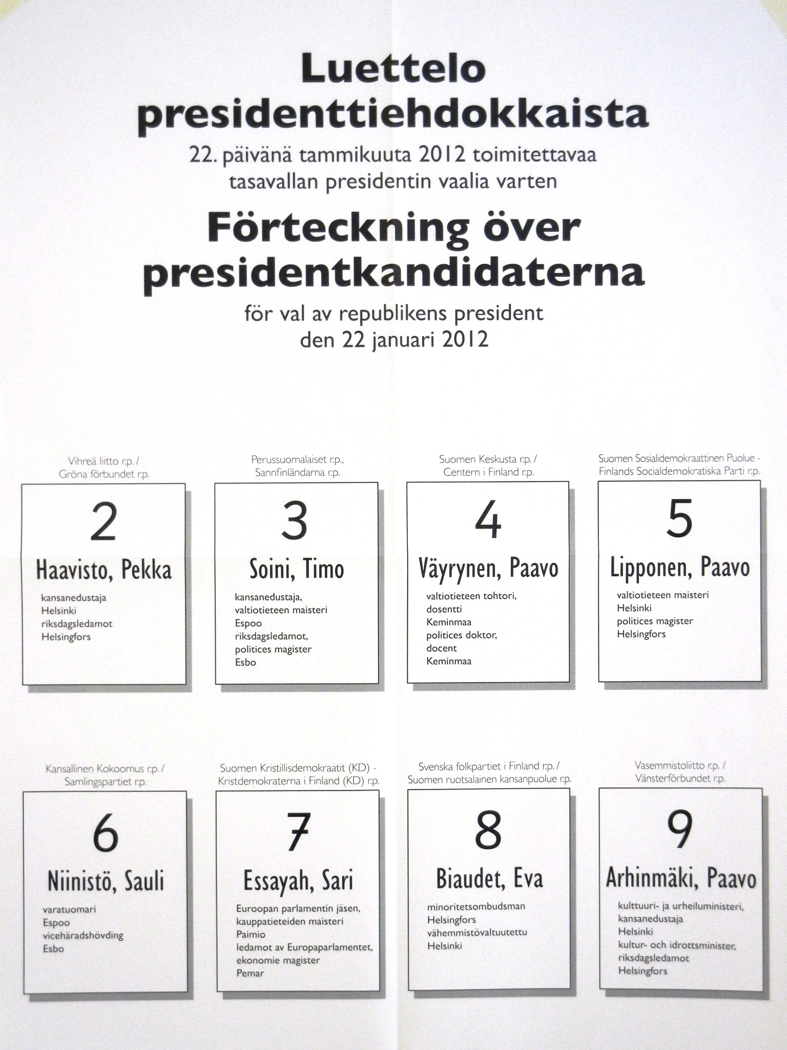 Official list of candidates i the presidential election of Finland, 2012 (first round). These lists are on display in the voting booths and elsewhere at the polling place. The number of the preferred candidate is to be written on the ballot. The information for each candidate includes party, name, profession or other title and home municipality (in Finnish and Swedish).